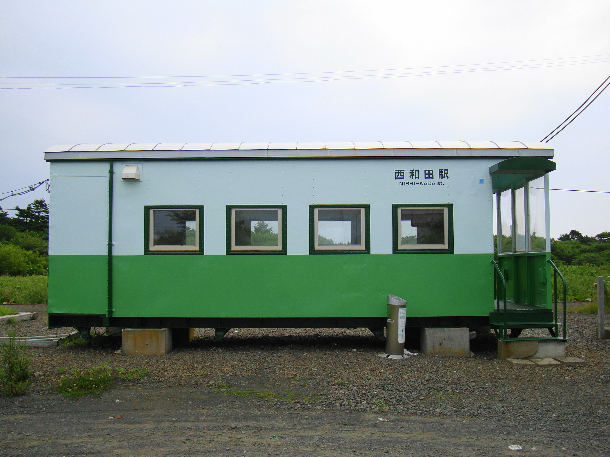 Nishi-Wada Station